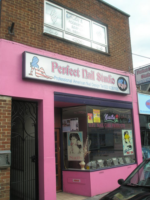 Nail bar in London Road